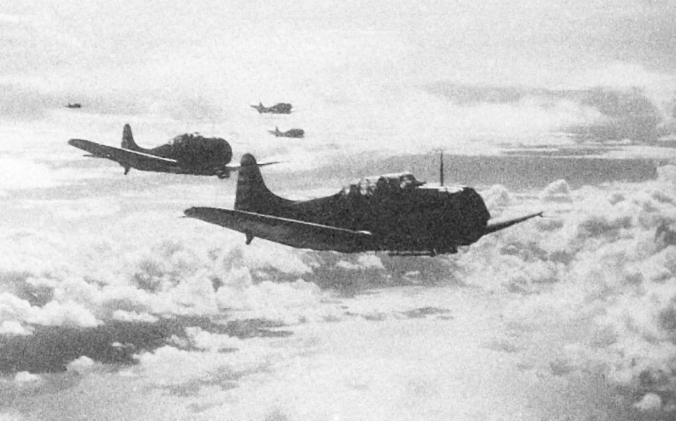 Douglas SBDs of USS Yorktown´s air group head back to the ship after a strike on Japanese ships in Tulagi harbor on 4 May 1942.